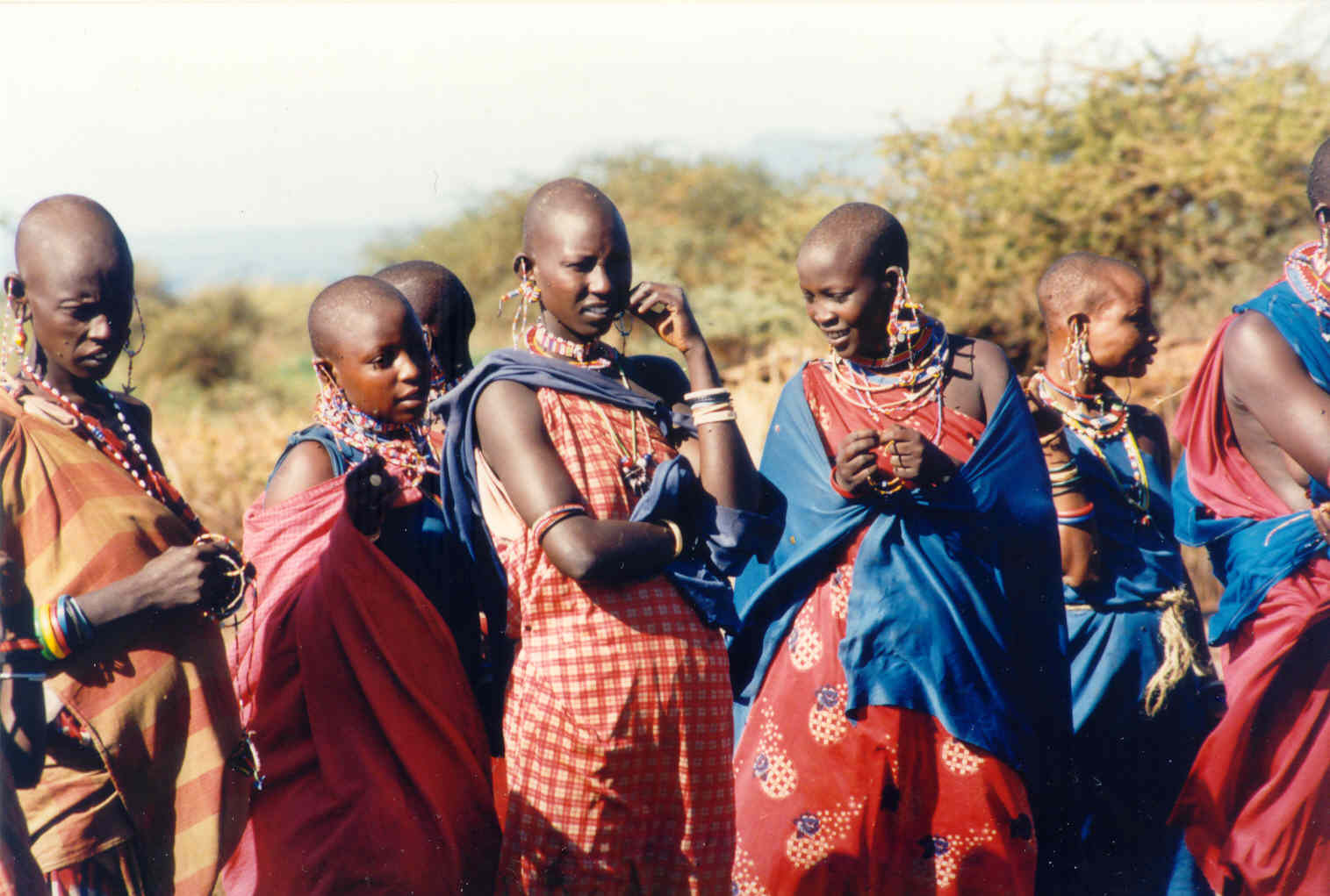 Ethnic groups - tribe at Kenya, Massai